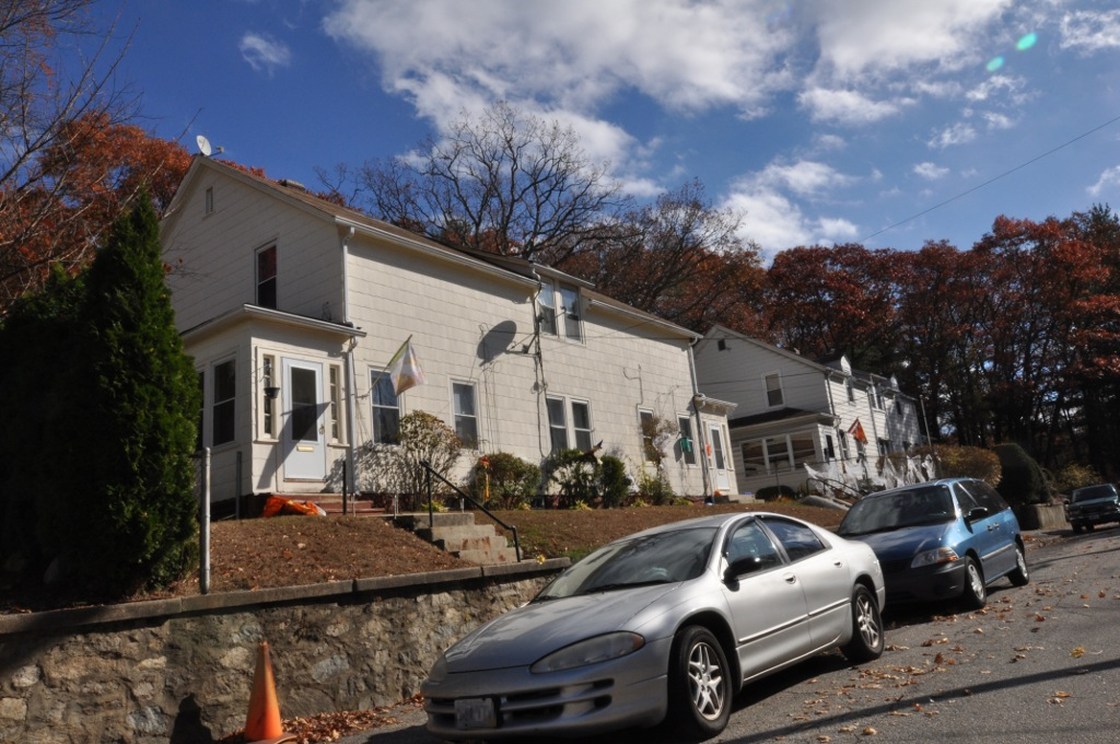 Former mill worker housing in Greystone Village, North Providence, Rhode Island.